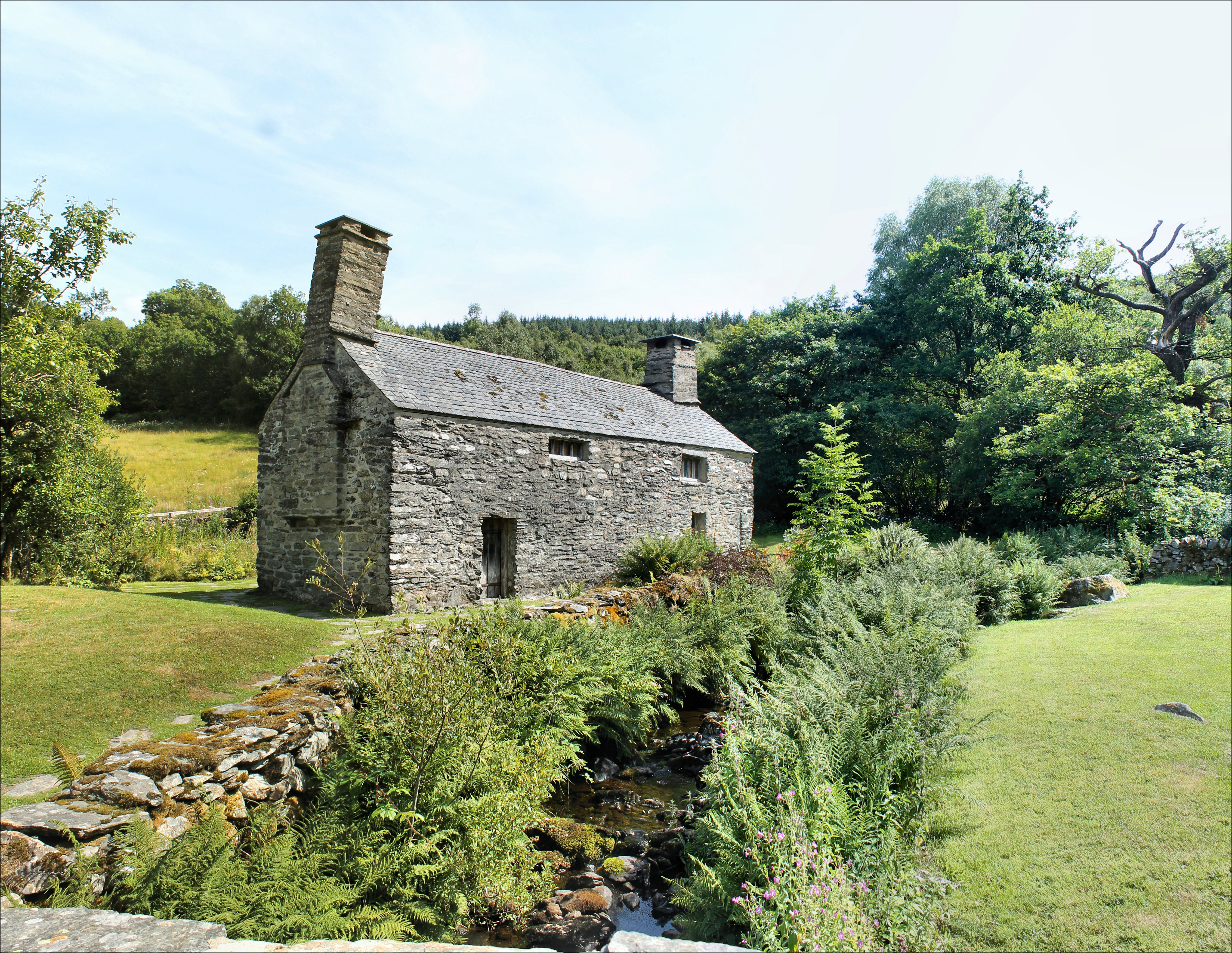 Tŷ Mawr Wybrnant is a house in the Wybrnant Valley, in the community of Bro Machno, near Betws-y-Coed in Conwy County Borough, Wales. It is the birthplace of Bishop William Morgan, first translator of the whole Bible into Welsh.